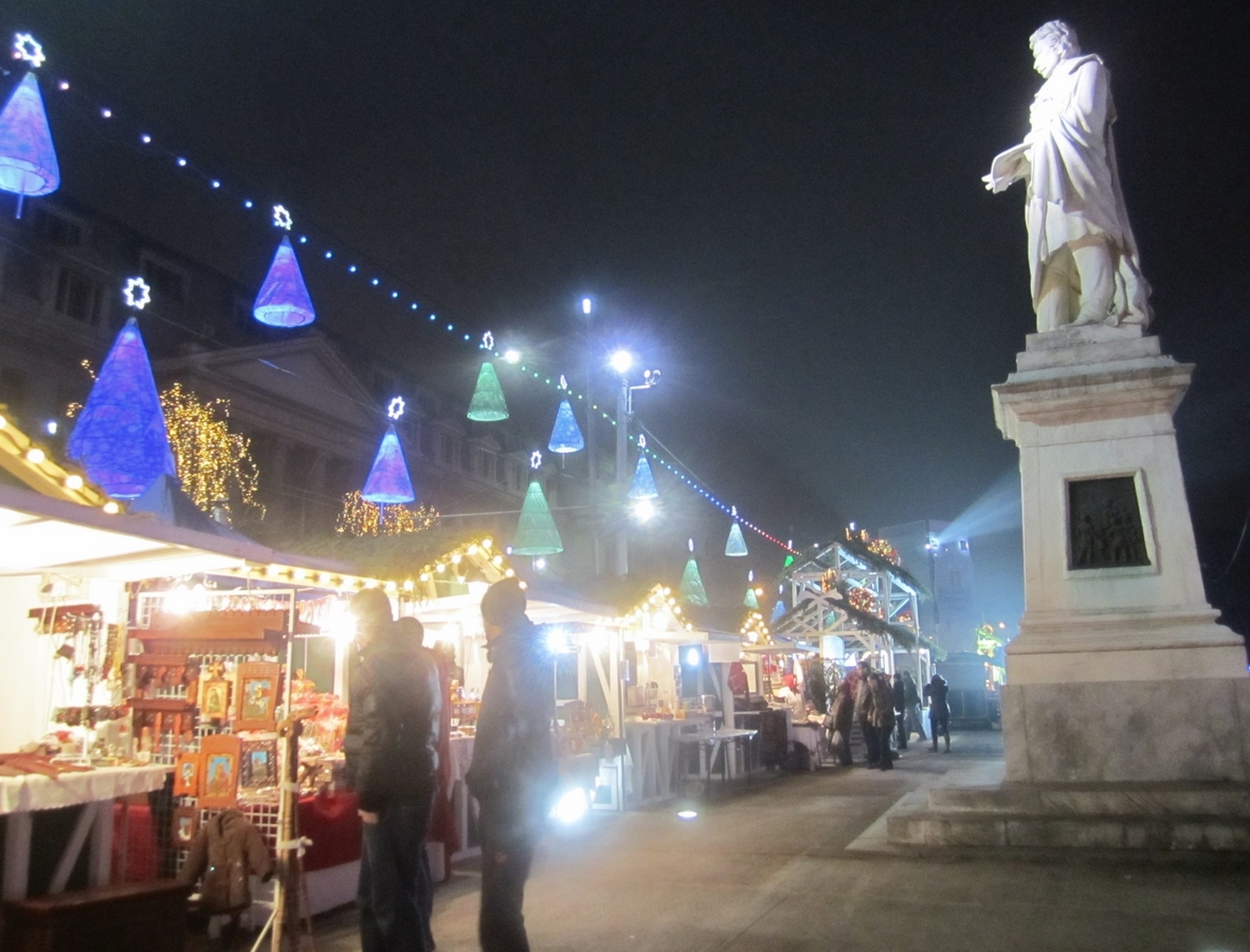 Christmas fair in University Square, Bucharest RomaniaRomână: Targ de Craciun in Piata Universitatii, Bucuresti Romania